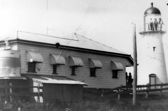 Caloundra Lighthouse and Keeper's residence, ca 1920 Description: Mr Oliver Birrell and his family were residents of the cottage from 1918 till 1931. The post office was situated in the keepers residence, which the Birrells also ran.